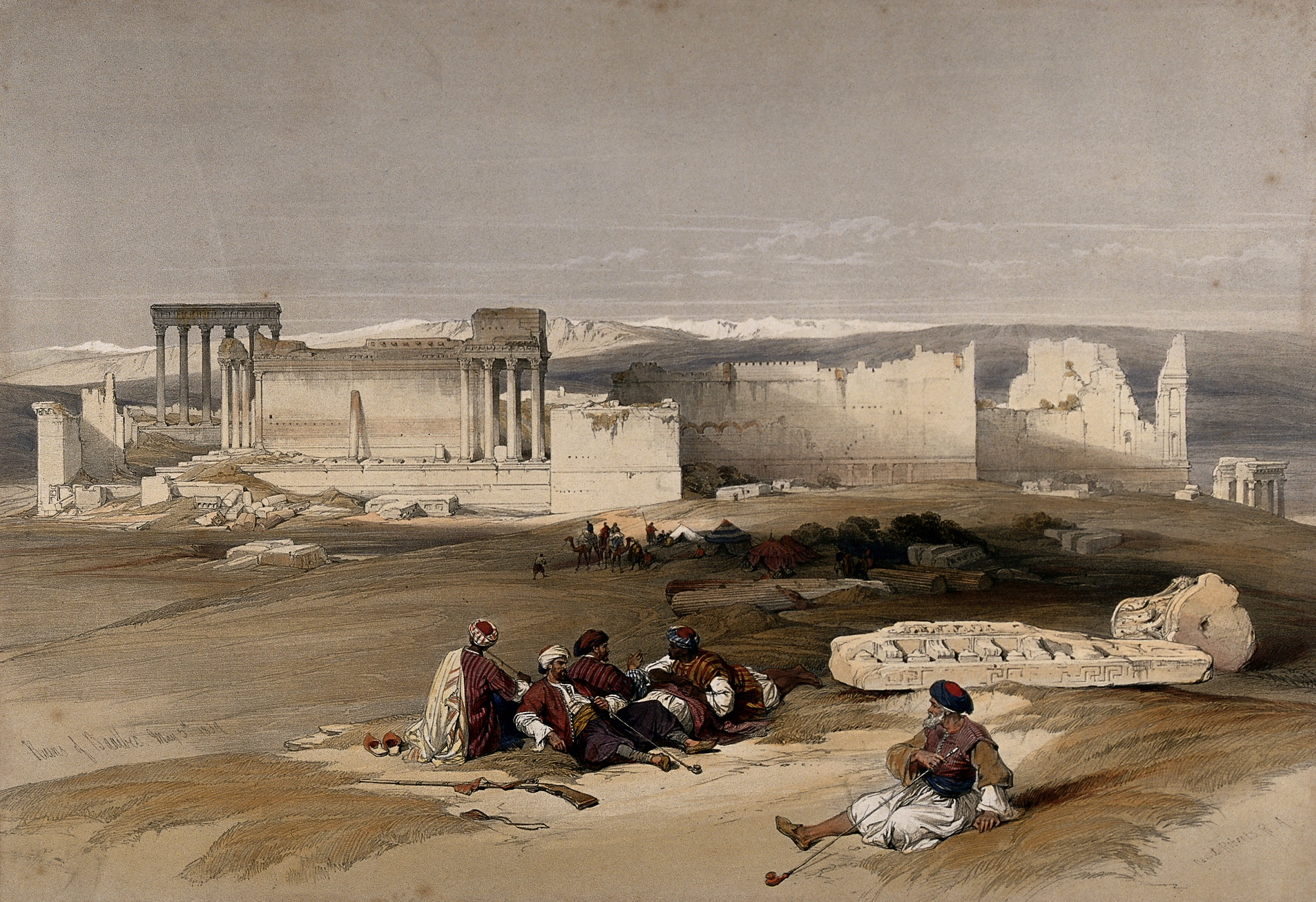 The ancient city of Baalbec. Coloured lithograph by Louis Haghe after David Roberts, 1843. Iconographic Collections Keywords: David Roberts; Louis Haghe